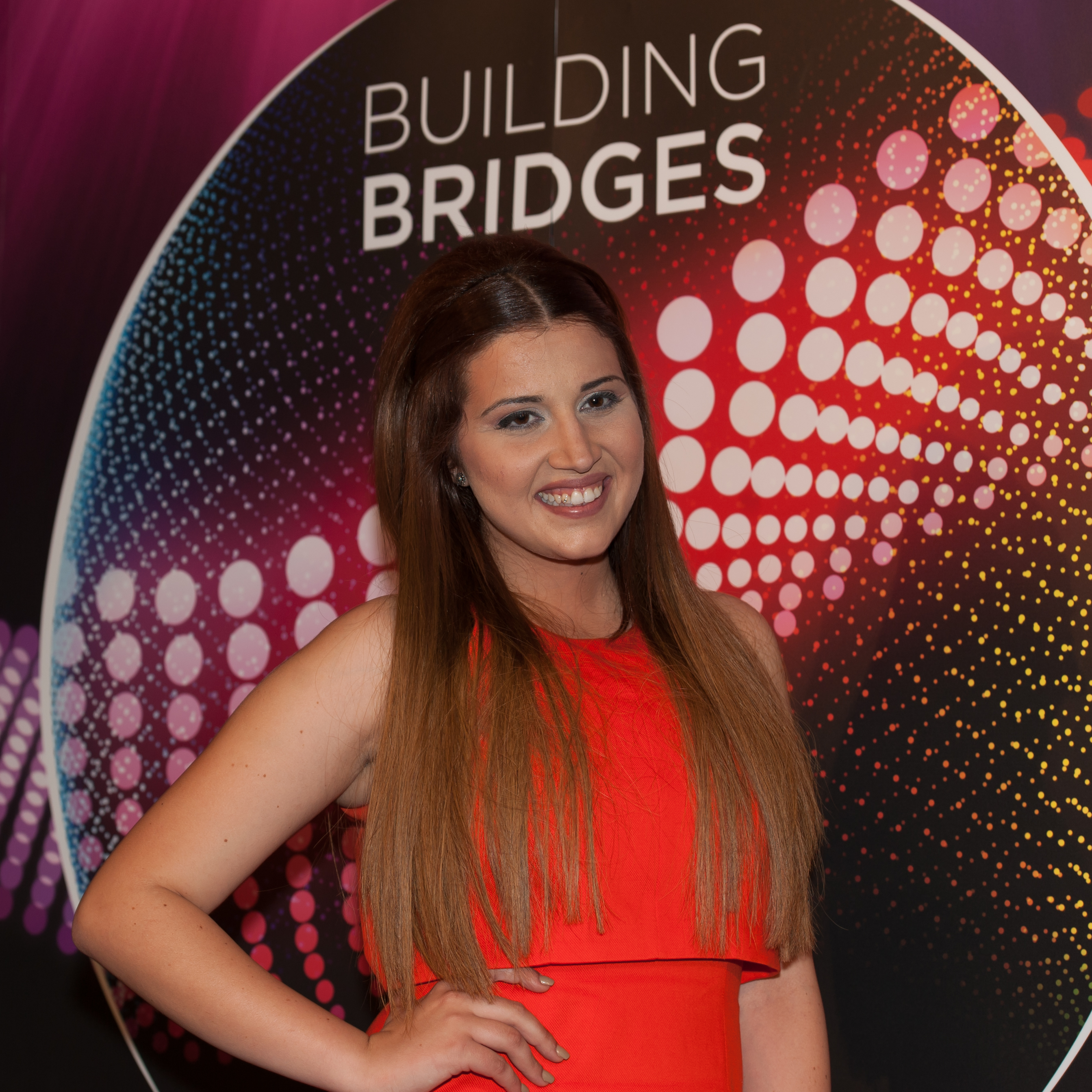 Eurovision Song Contest Vienna 2015: Amber